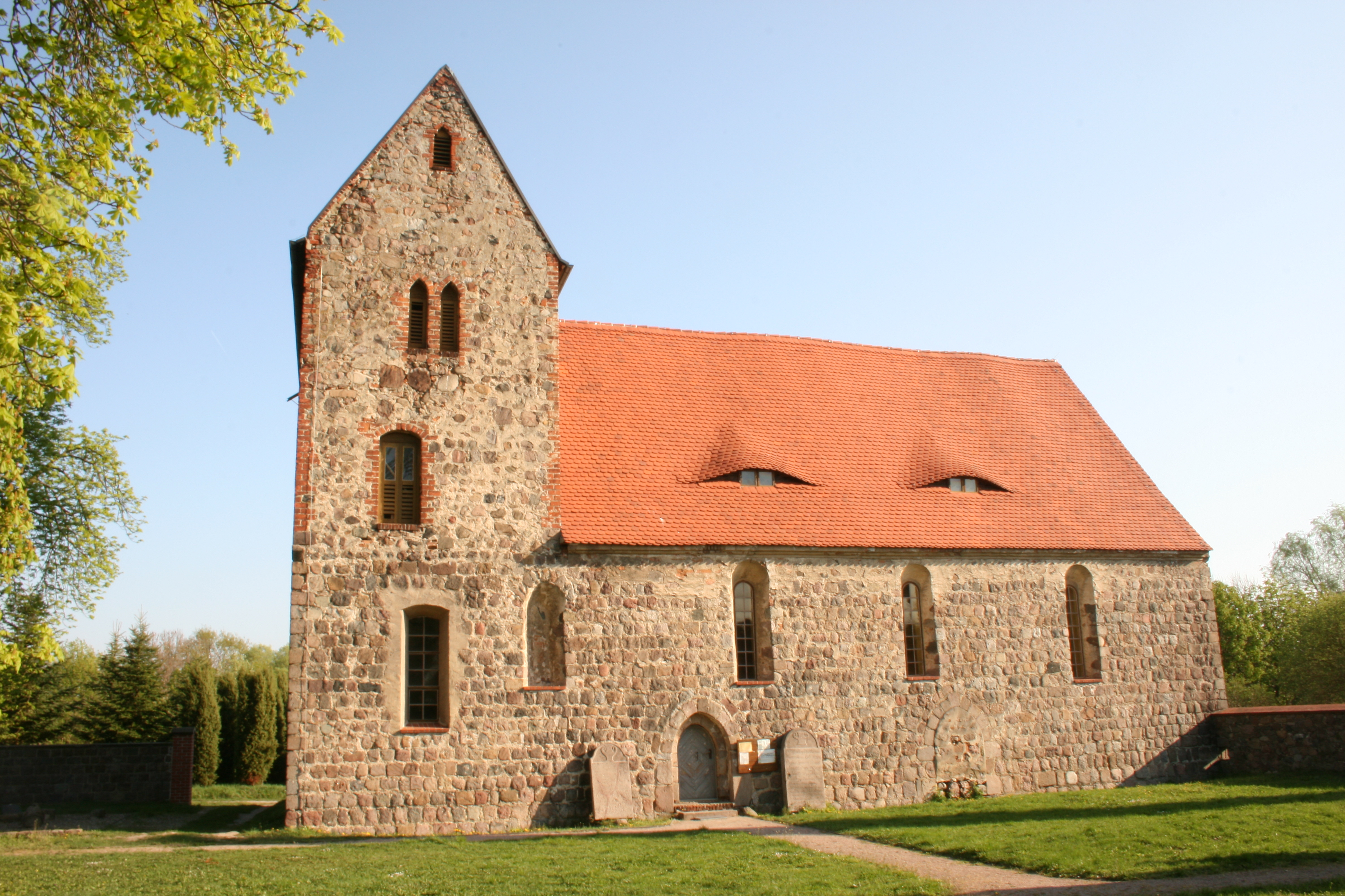 Church of Neuendorf, Oderberg municipality, Barnim district, Brandenburg state, Germany